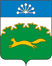 Sibai (Bashkortostan), coat of arms